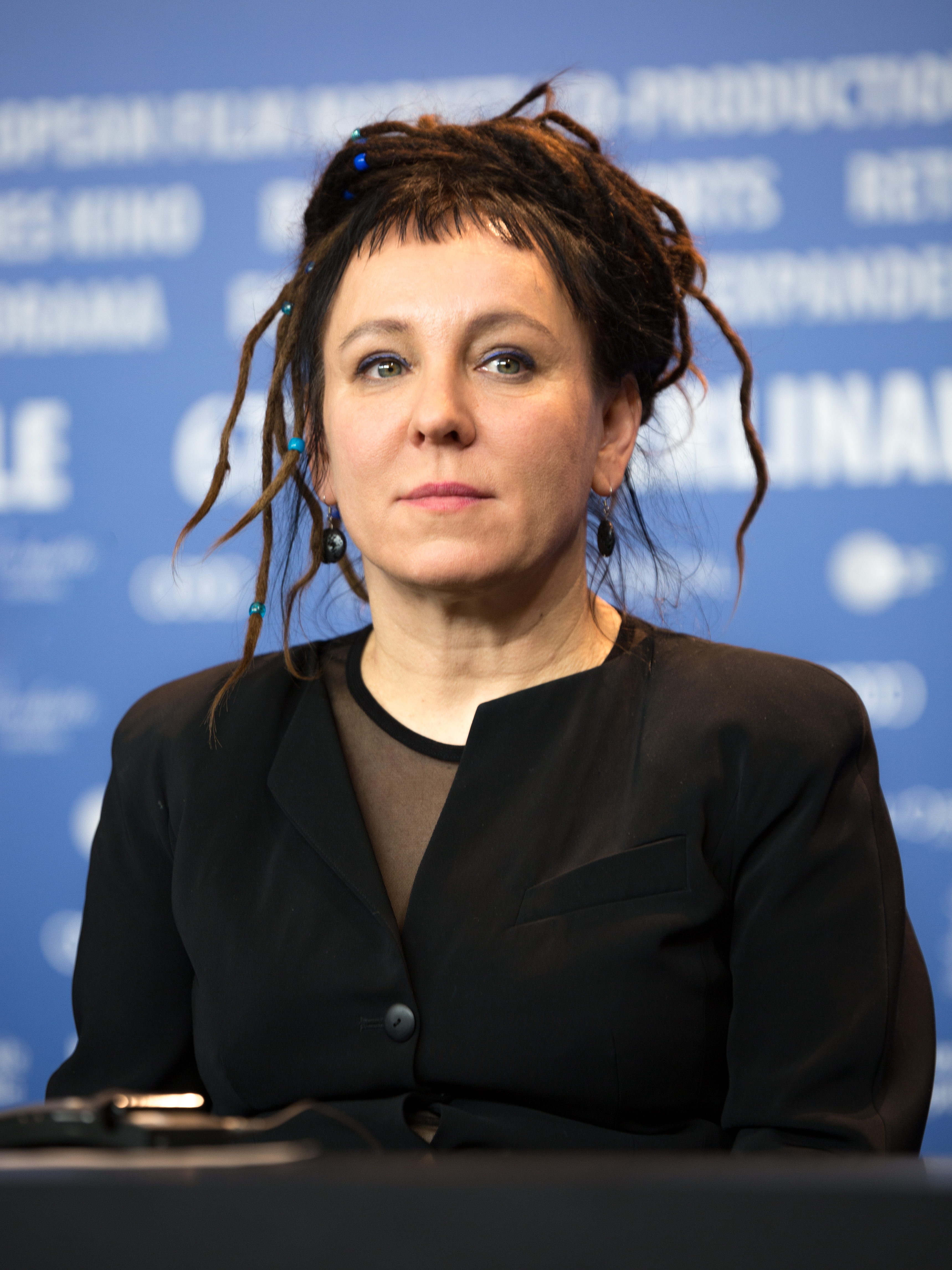 Author Olga Tokarczuk at the presentation of the polish movie Spoor at the Berlinale 2017